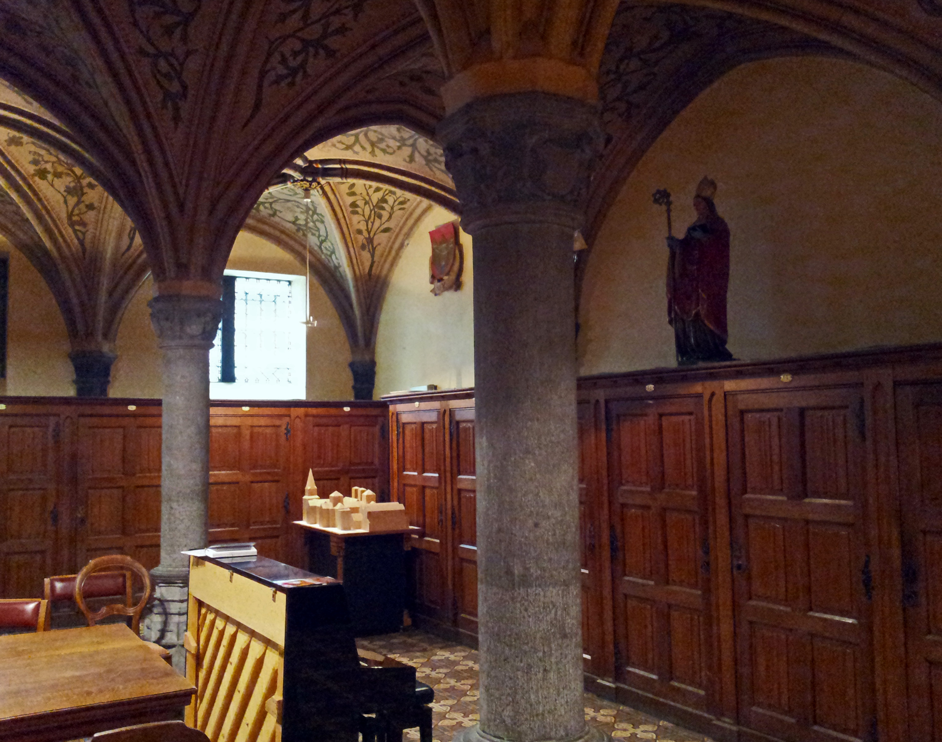 Liège, Belgium. Chapter house adjacent to Gothic cloisters of Saint Paul's Cathedral.